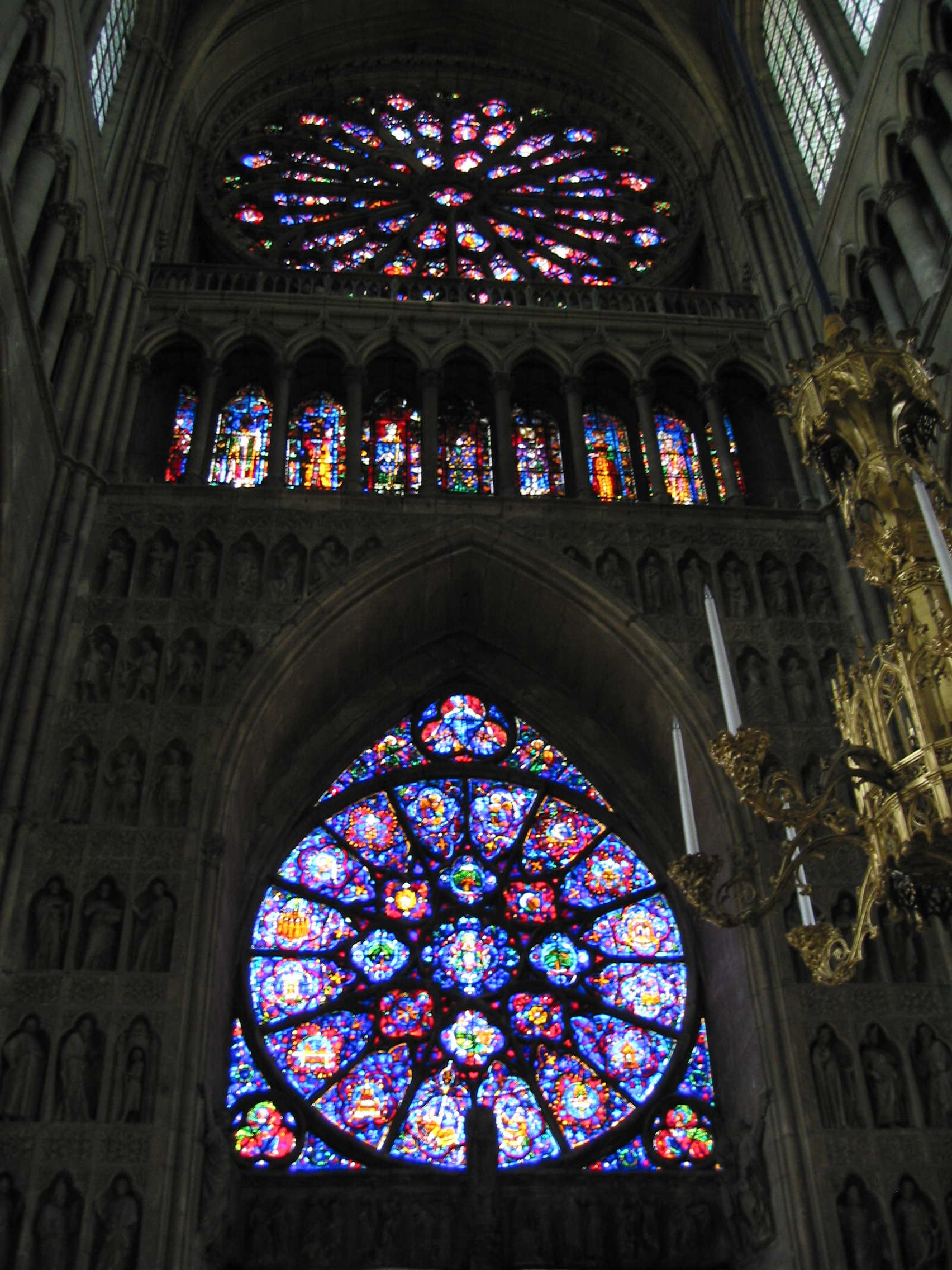 Cathedral in Reims, France.